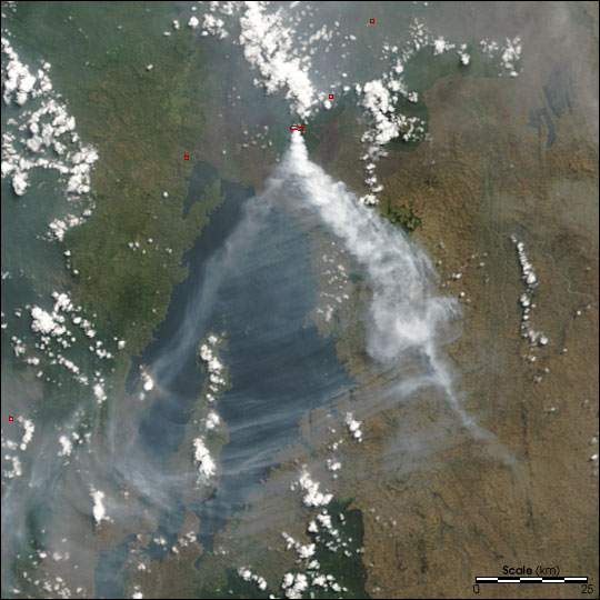 Eruption plume from Nyiragongo in the Congo, January 2002. Red squares show areas of anomalously high temperature. From [1].